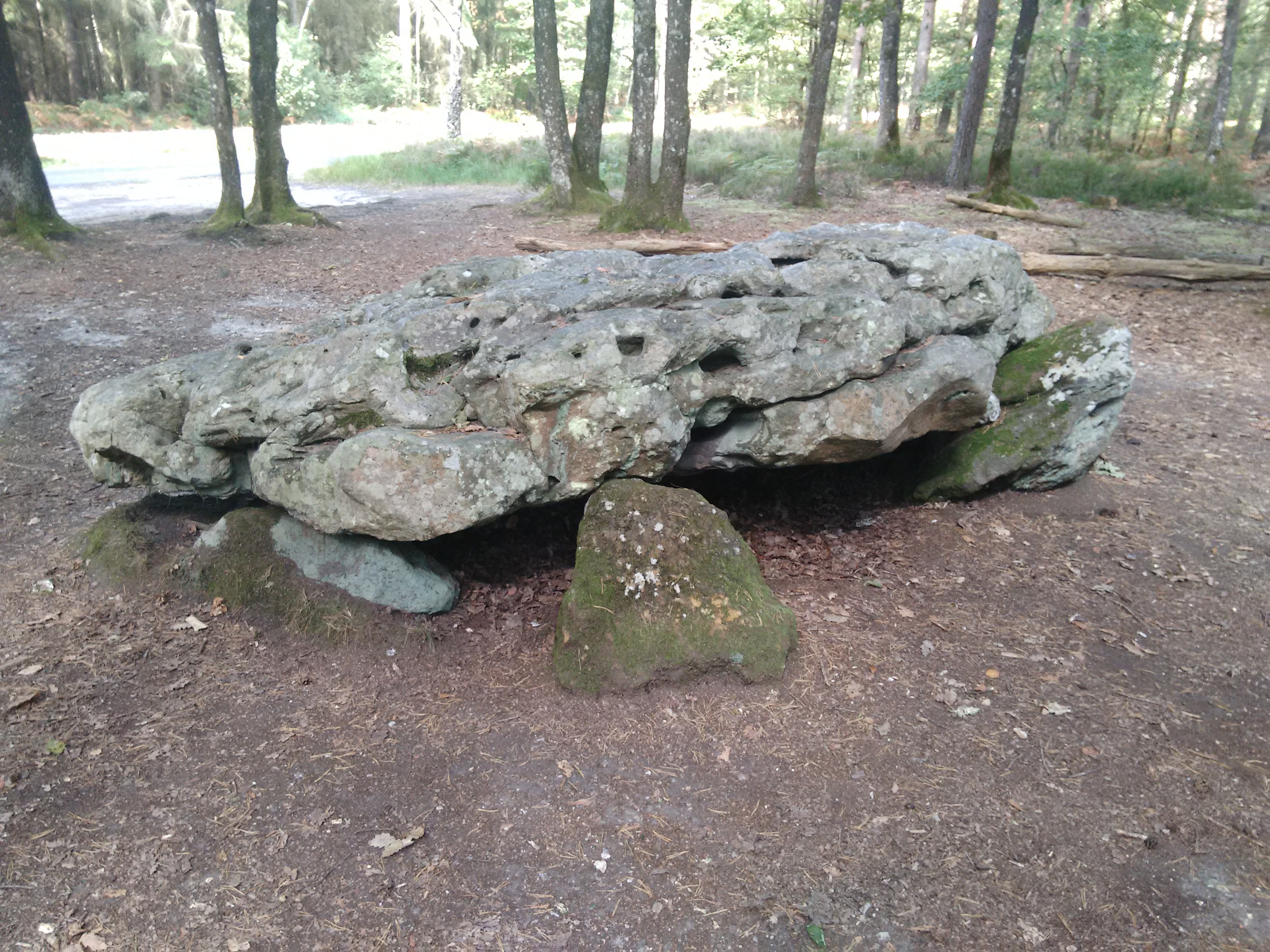 Dolmen de la Grosse-Pierre, 4.5 kms NW of Rémalard